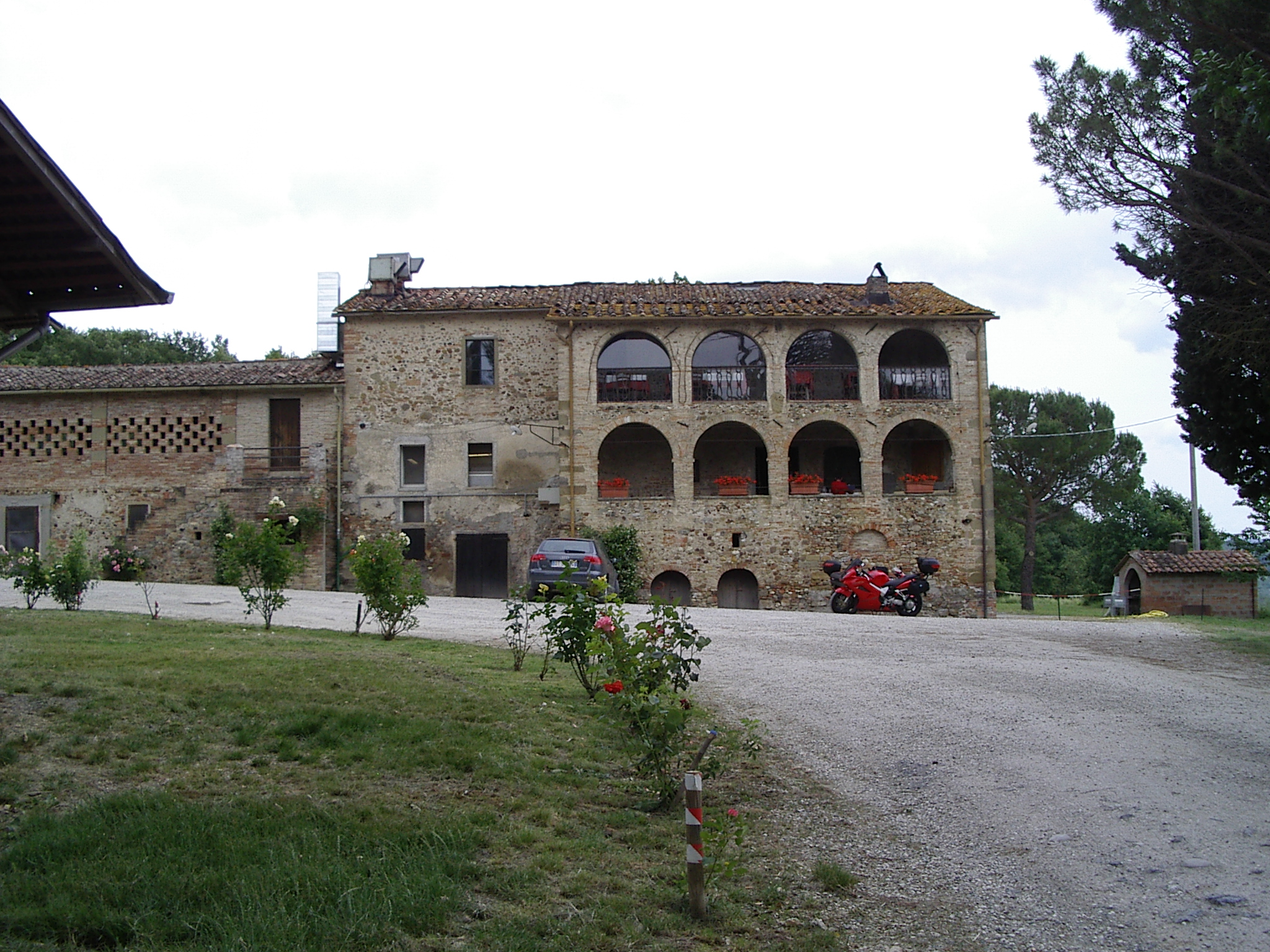 Locanda de Sorci, Anghiari, Italy